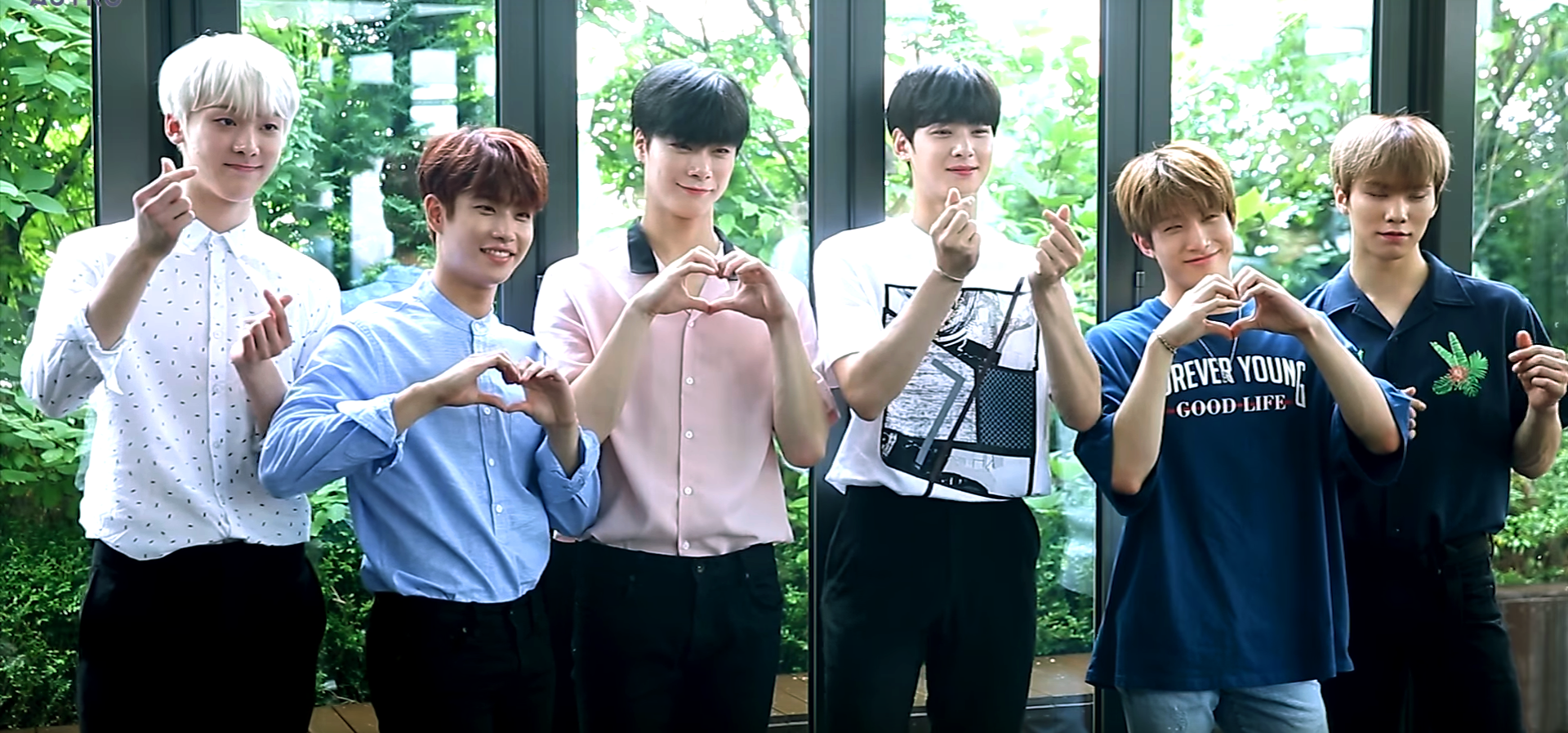 Astro in Sept 2017